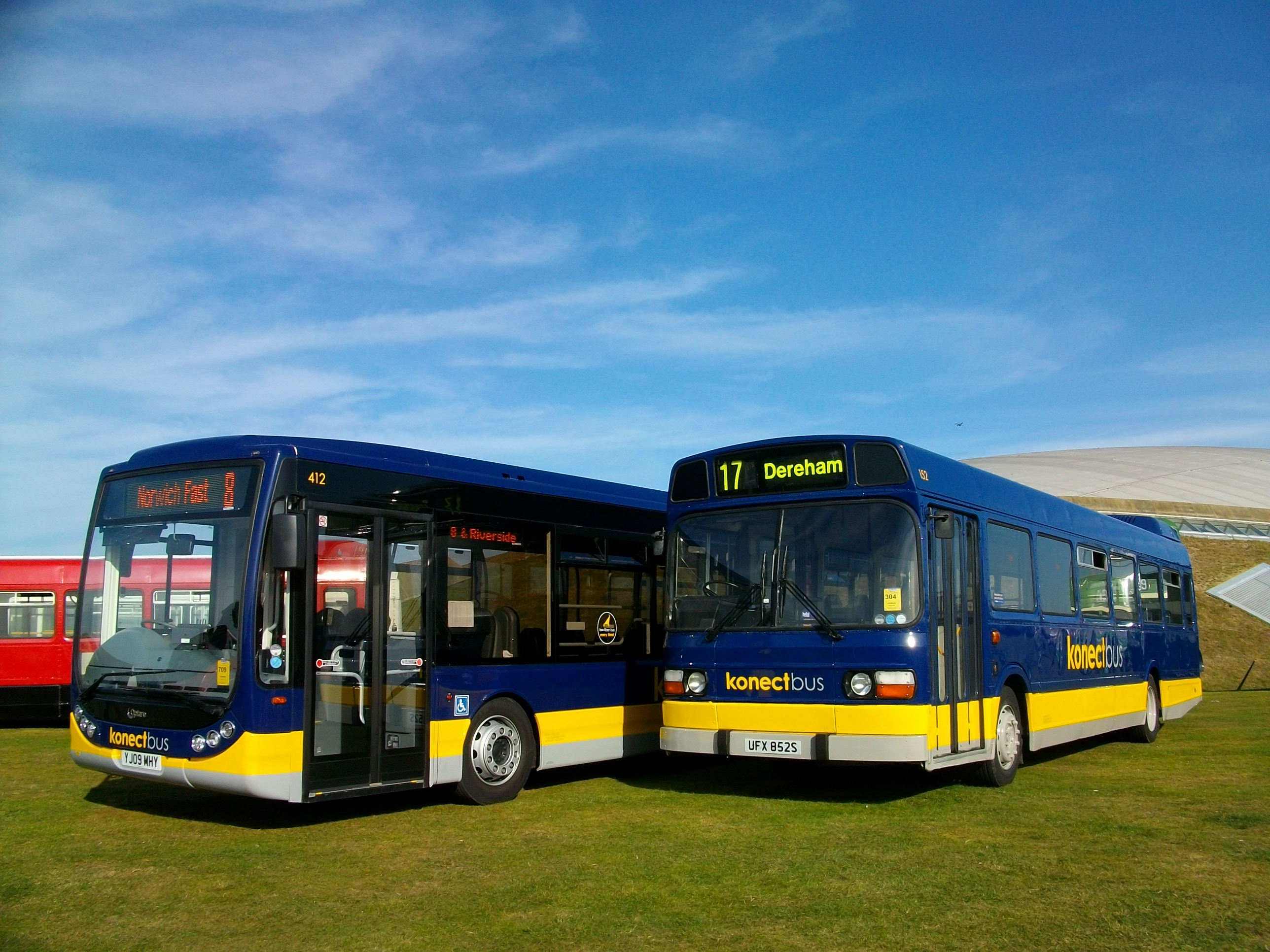 Two Konectbus buses at Showbus 2009, Imperial War Museum, Duxford. Cambridgeshire. On the left is 412 (reg. YJ09 MHY), a brand new 2009 Optare Tempo, while on the right is 152 (reg. UFX 852S), a 1977 Leyland National Mark 1. Despite their relative ages, both are still in service with the company, the National having been refurbished and repainted in 2009 for the company's 10th anniversary and retained for low intensity use.